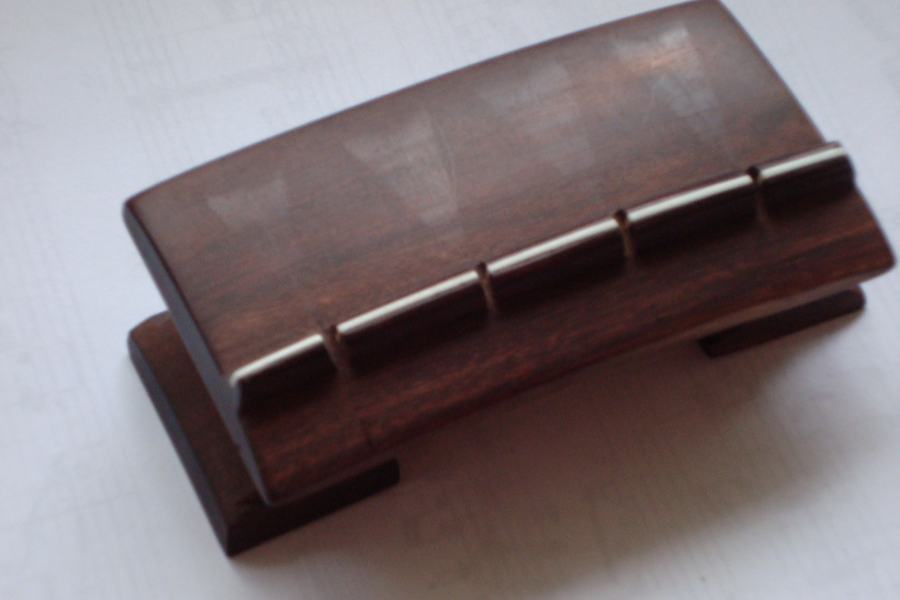 photo of rosewood tambura bridge